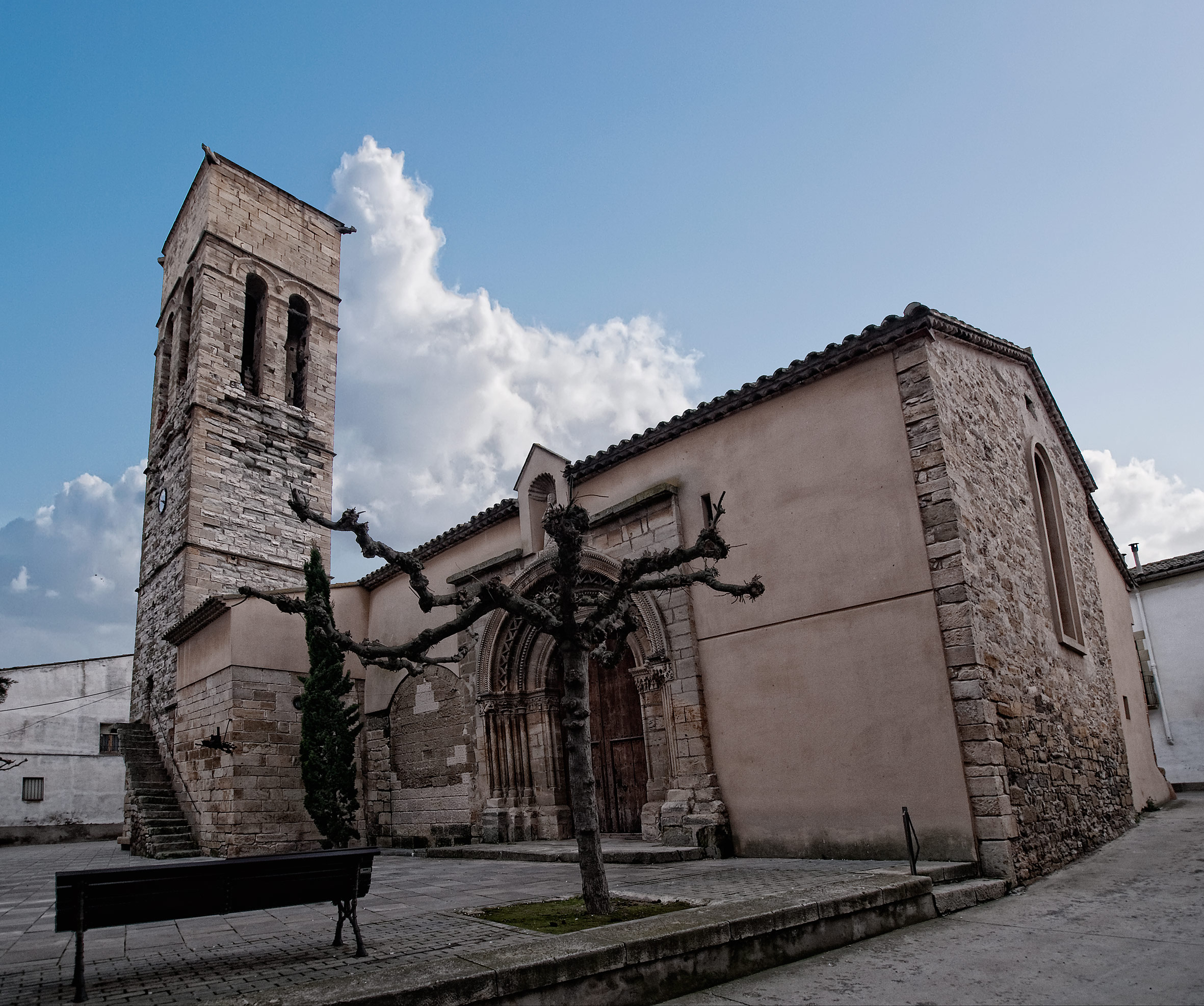 Santa Maria church of Vilagrassa (Catalonia, Spain)